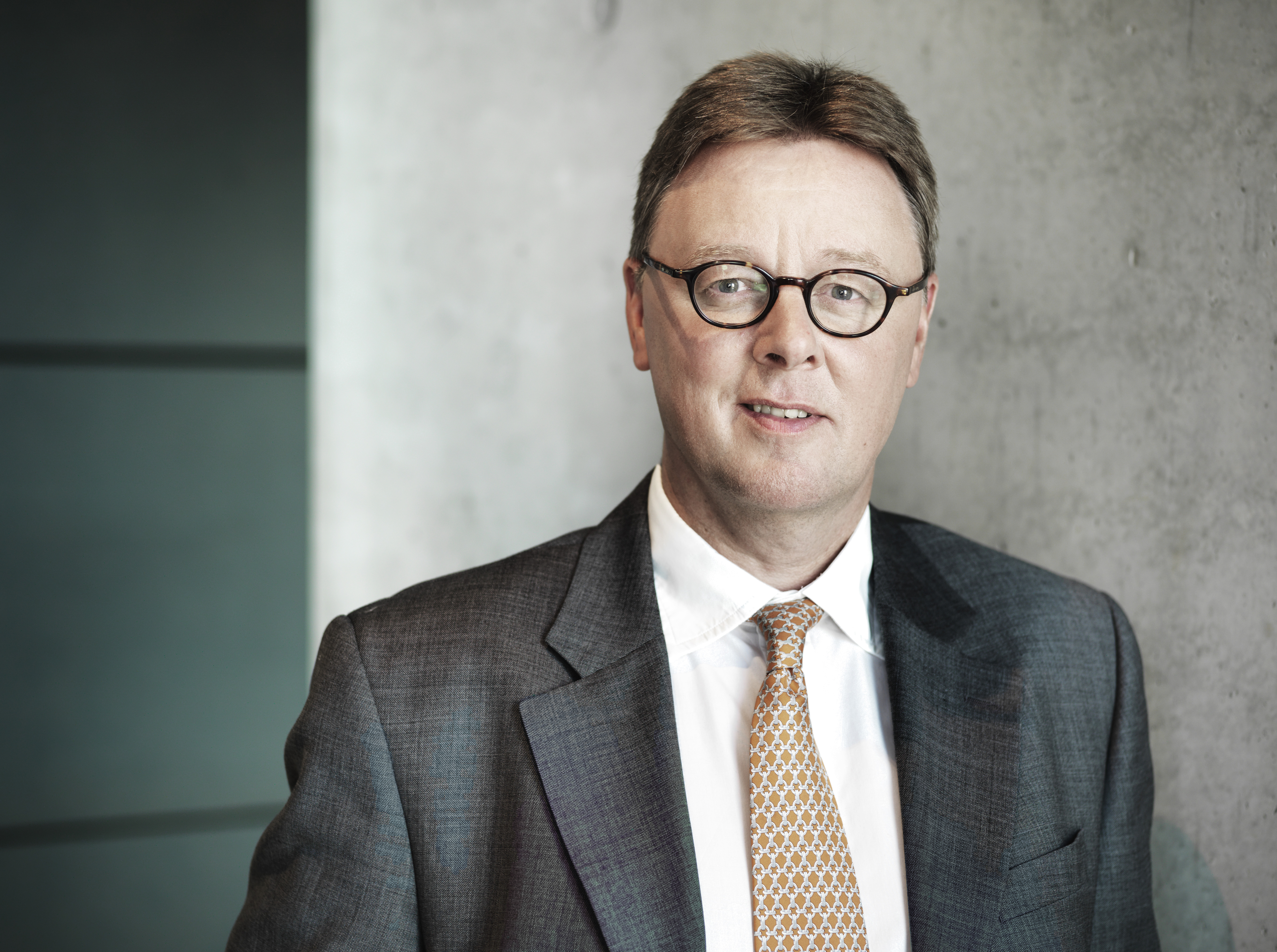 Michael Grosse-Brömer, Member of the German Bundestag, Chief Whip of the CDU/CSU parliamentary group in the German Bundestag